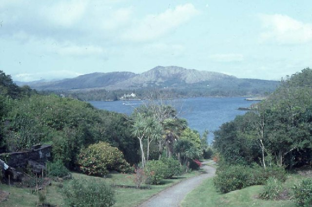 The view from Garinish Island. Knockanamadane is the mountain in the distance. The island is privately owned and has a fine garden, renowned for tree ferns. Cordyline australis (cabbage palms) thrive in this region - they line the pathway in this photograph.